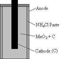 A diagram of a dry cell.